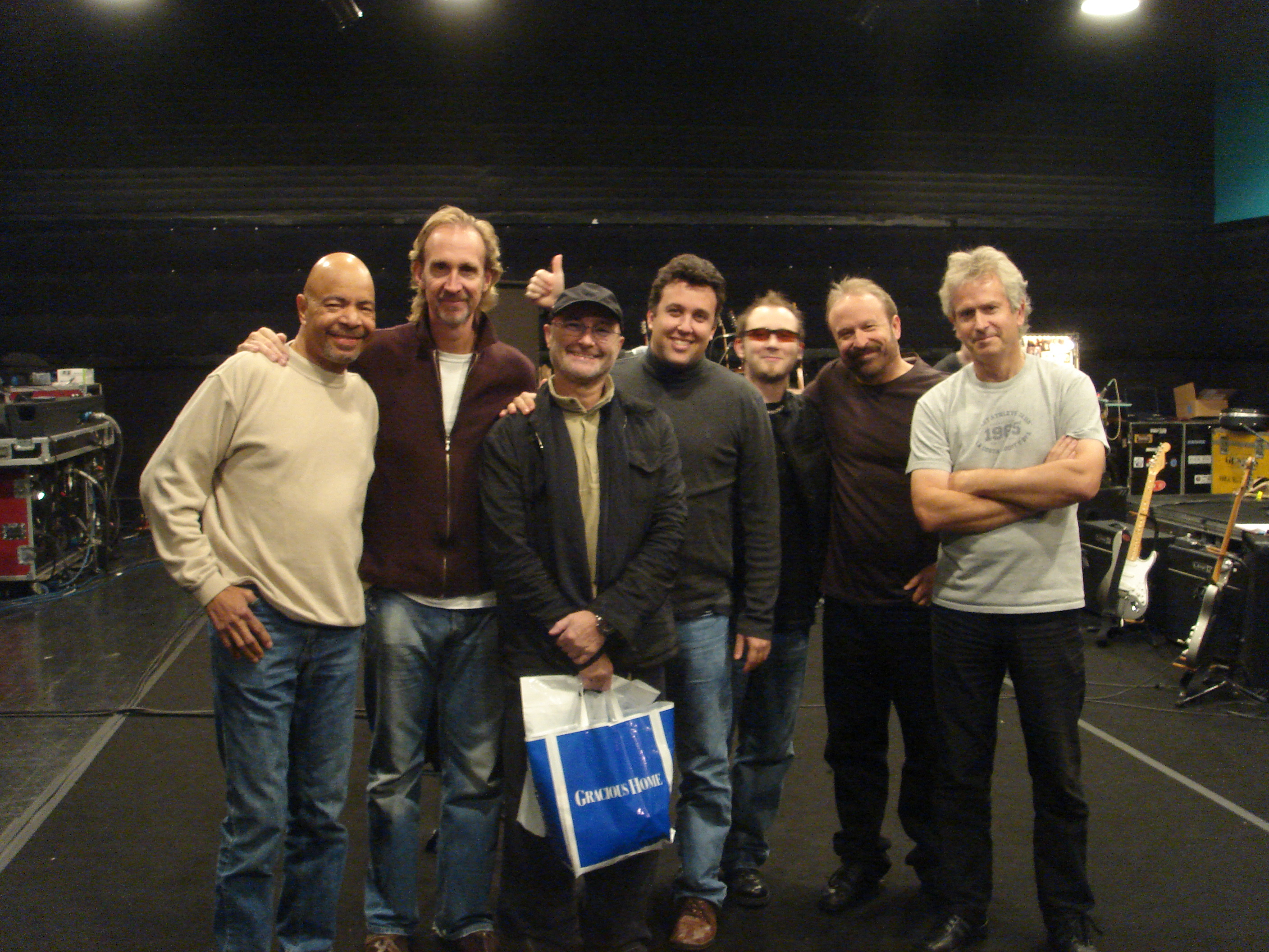 Dave Kerzner with Genesis and Simon Collins.